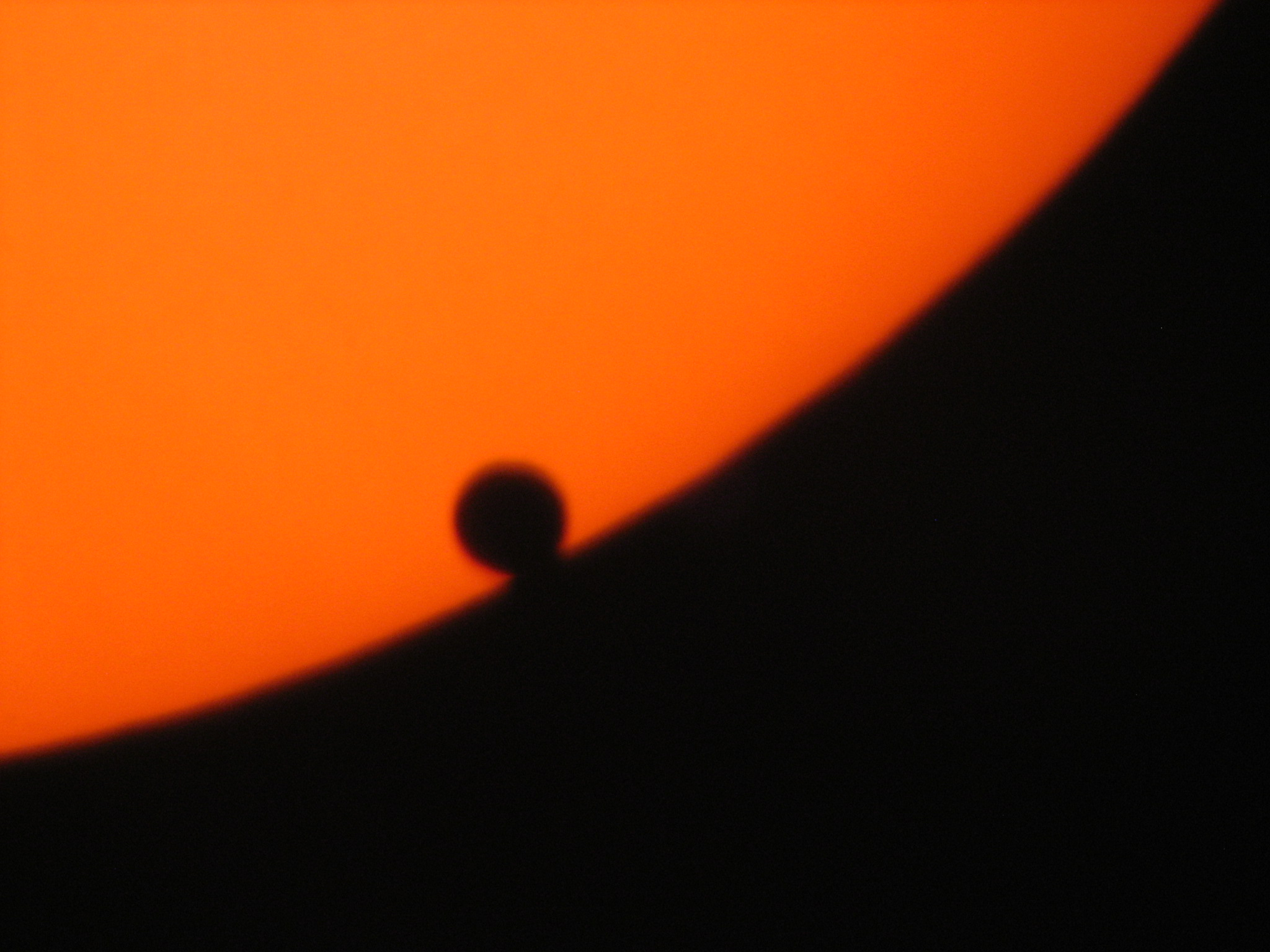 Venus transit, 2012.